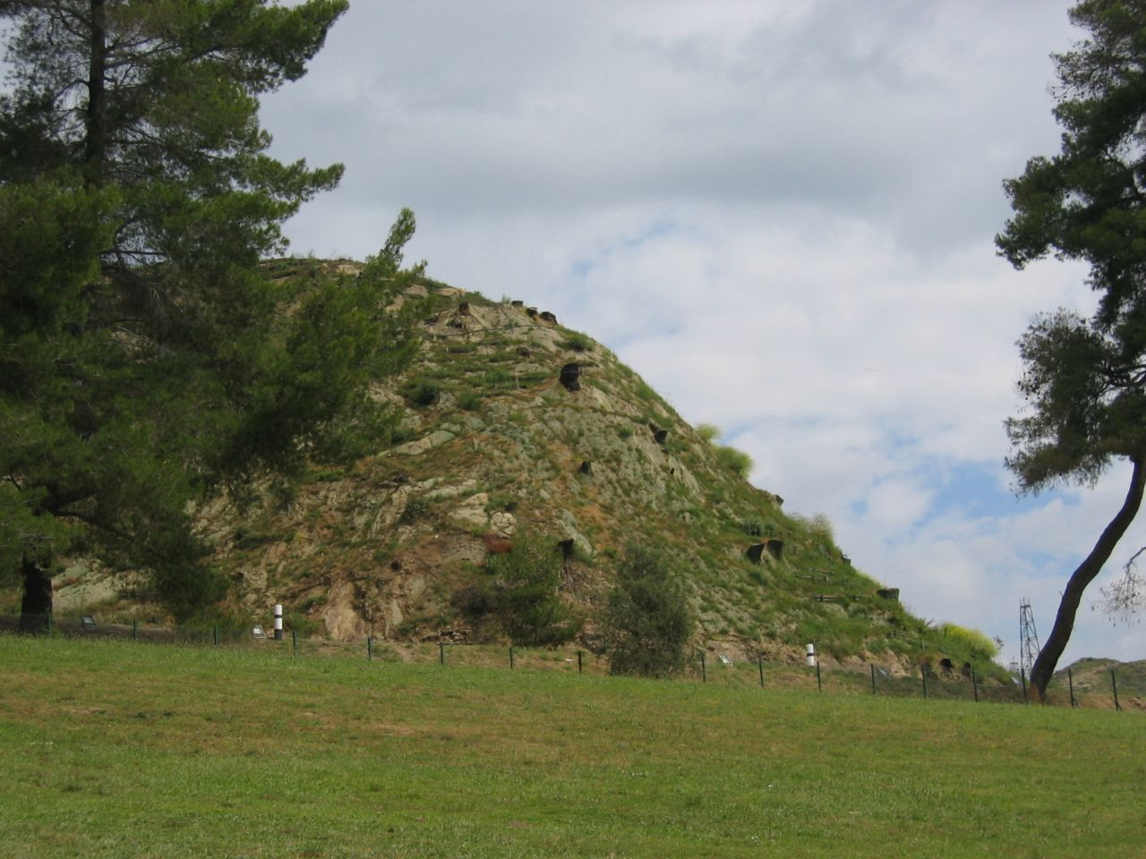 Mount Kronion after Summer 2007 wild fires. View from Olympia stadium